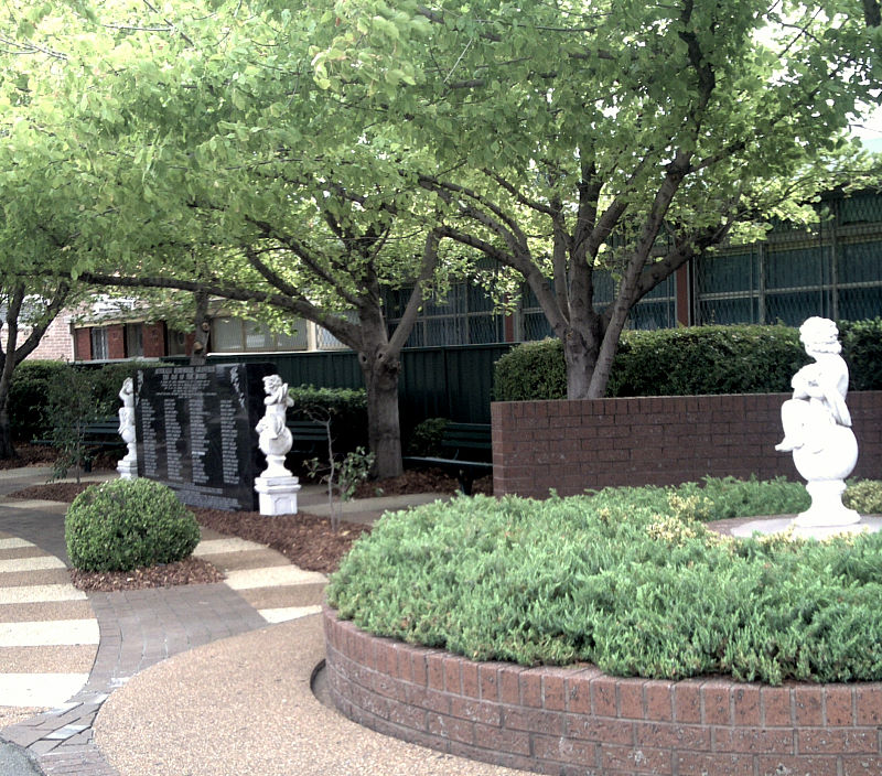 The memorial for the 83 people killed in the 1977 Granville train disaster. It is located on the corner of Railway Parade and Carlton Street, just a few metres away from the location of the original accident in Granville, Sydney, NSW, Australia. The photo was taken from the Railway Parade side, in approximately 100-200 west metres of the Granville railway station.